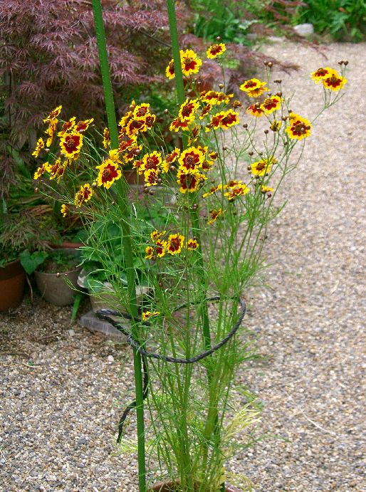 Coreopsis tinctoria